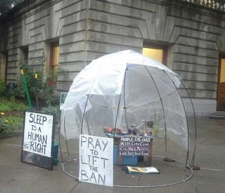 Nov. 2012 Photo of 27/7 Occupy Portland Prayer Vigil at City Hall ongoing since Dec. 1, 2011.